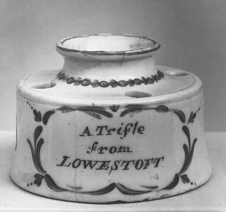 British, Lowestoft; Inkstand; Ceramics-Porcelain